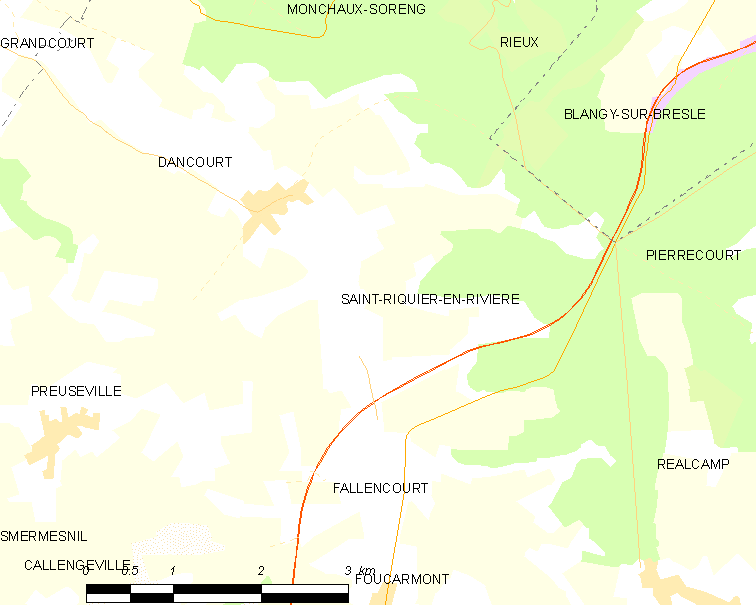 Map of French municipality Saint-Riquier-en-Rivière